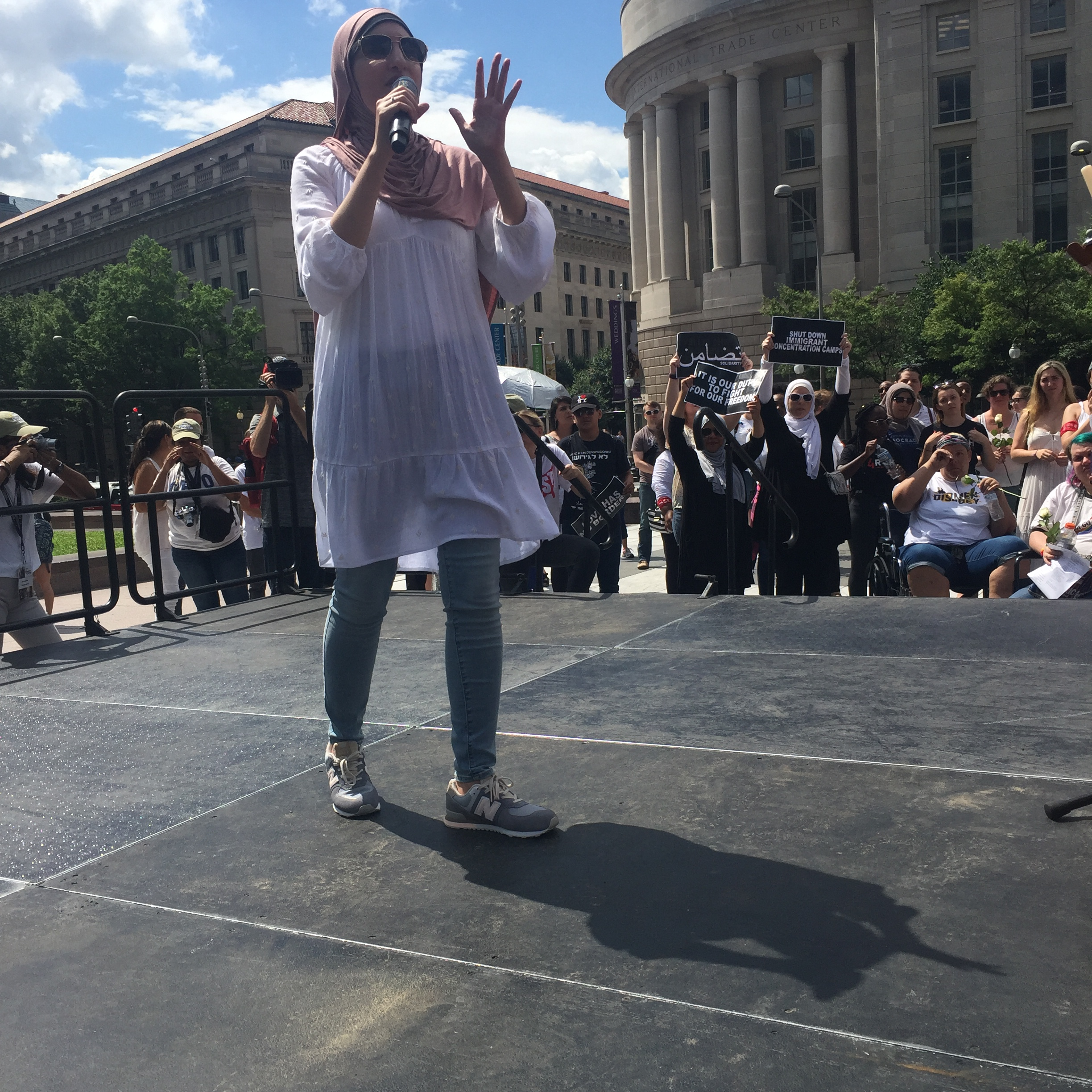 Activist Linda Sarsour speaks at the Women Disobey protest against US Immigration and Customs Enforcement's (ICE) "zero tolerance" policy separation children and families at the US/Mexico border.